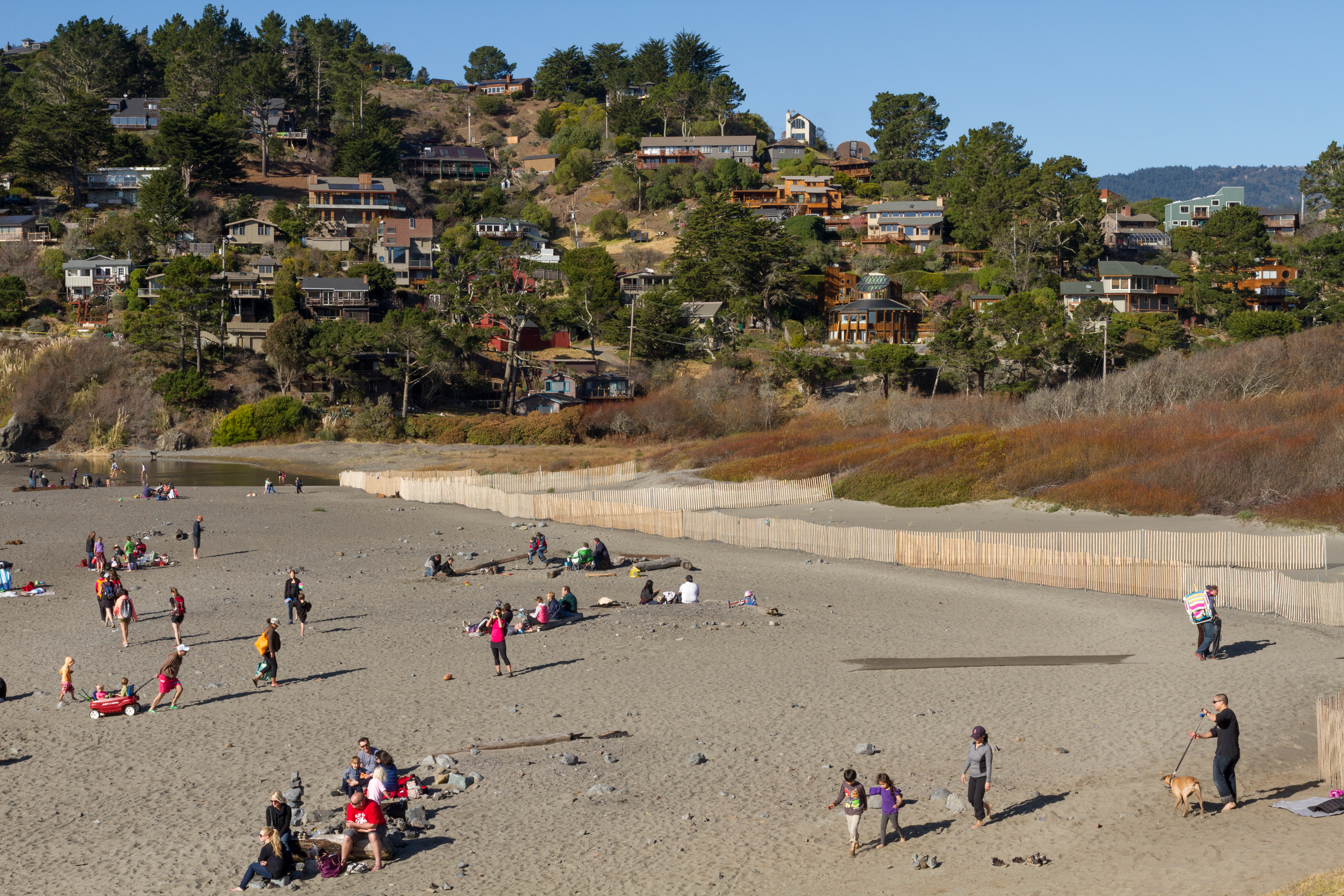 Muir Beach, Marin County, California, as seen from the beach, on the day of the re-opening of the beach, December 28, 2013.